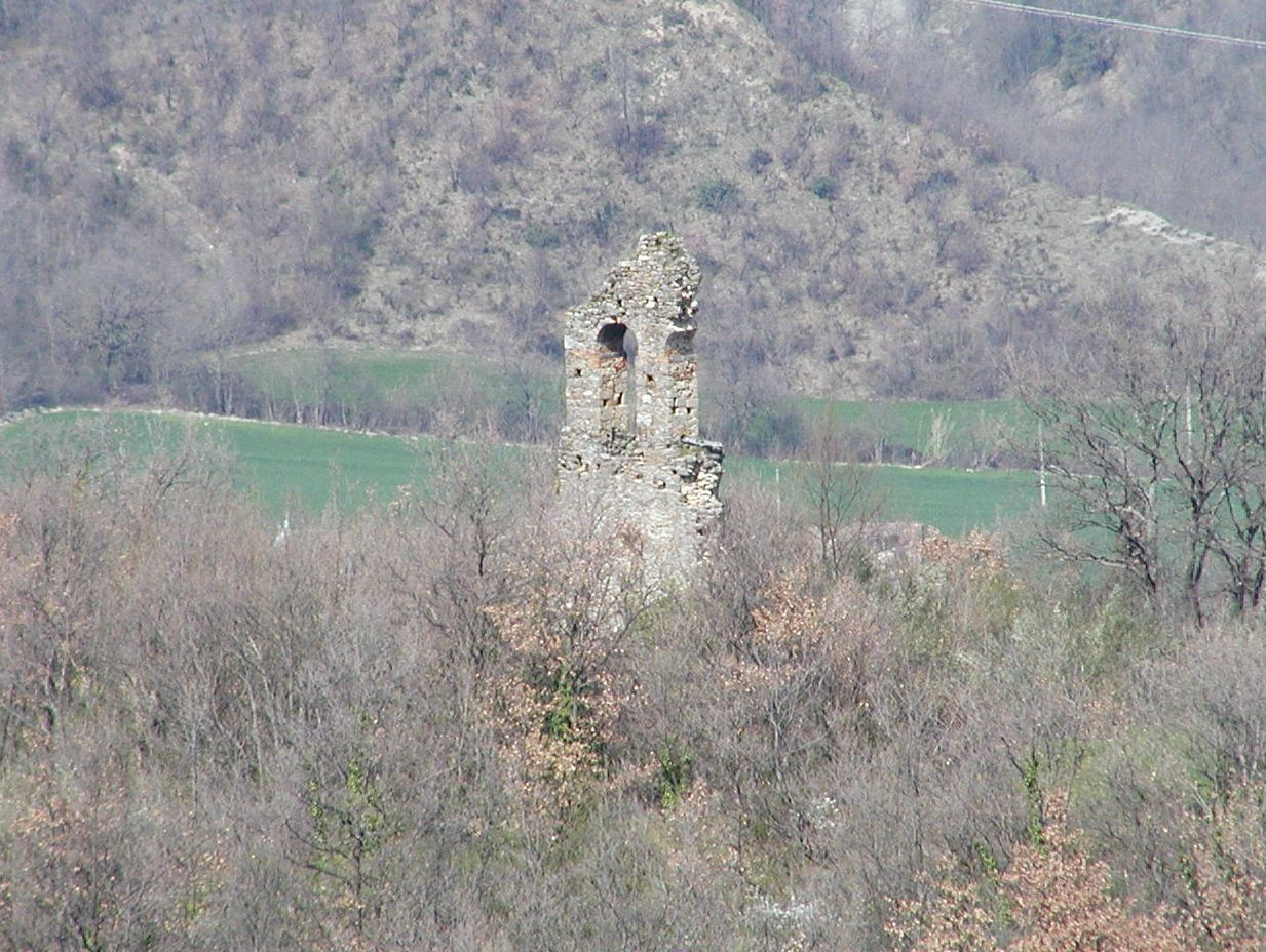 Ancient monastery of Saint John in Pergulis, located in Villa San Giovanni (Teramo, Italy)